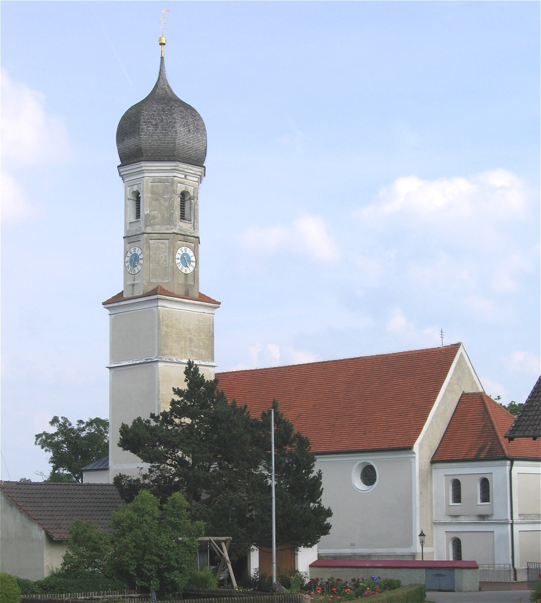 Steinkirchen (Aßling), view of St Martin's Subsidiary Church from north-west.